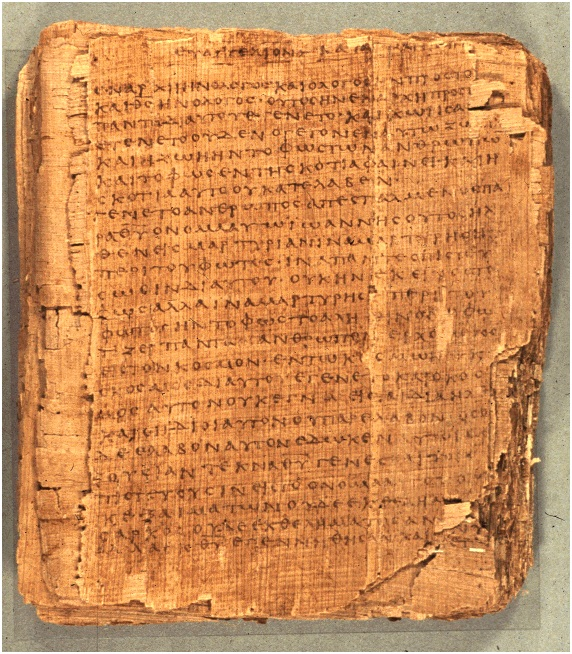 Greek manuscript of the New Testament